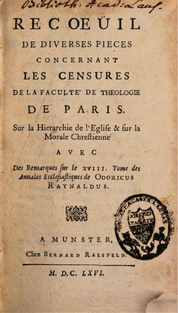 Title page of Munster, 1666, edition of Jacques Boileau's "Recueil"